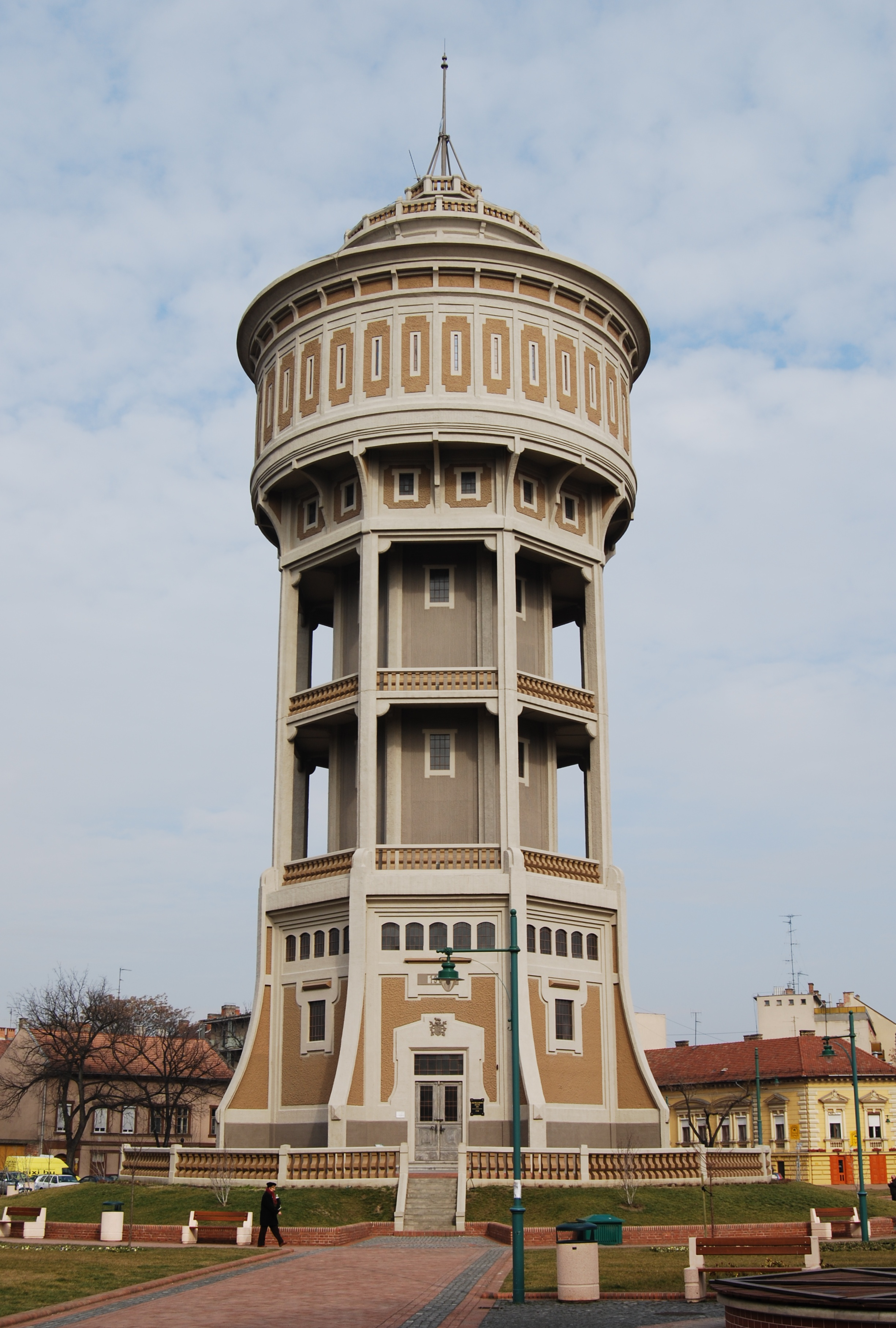 The water tower "Old Lady" at the Szent István Square is the oldest reinforced concrete building in Hungary, Szeged, Hungary